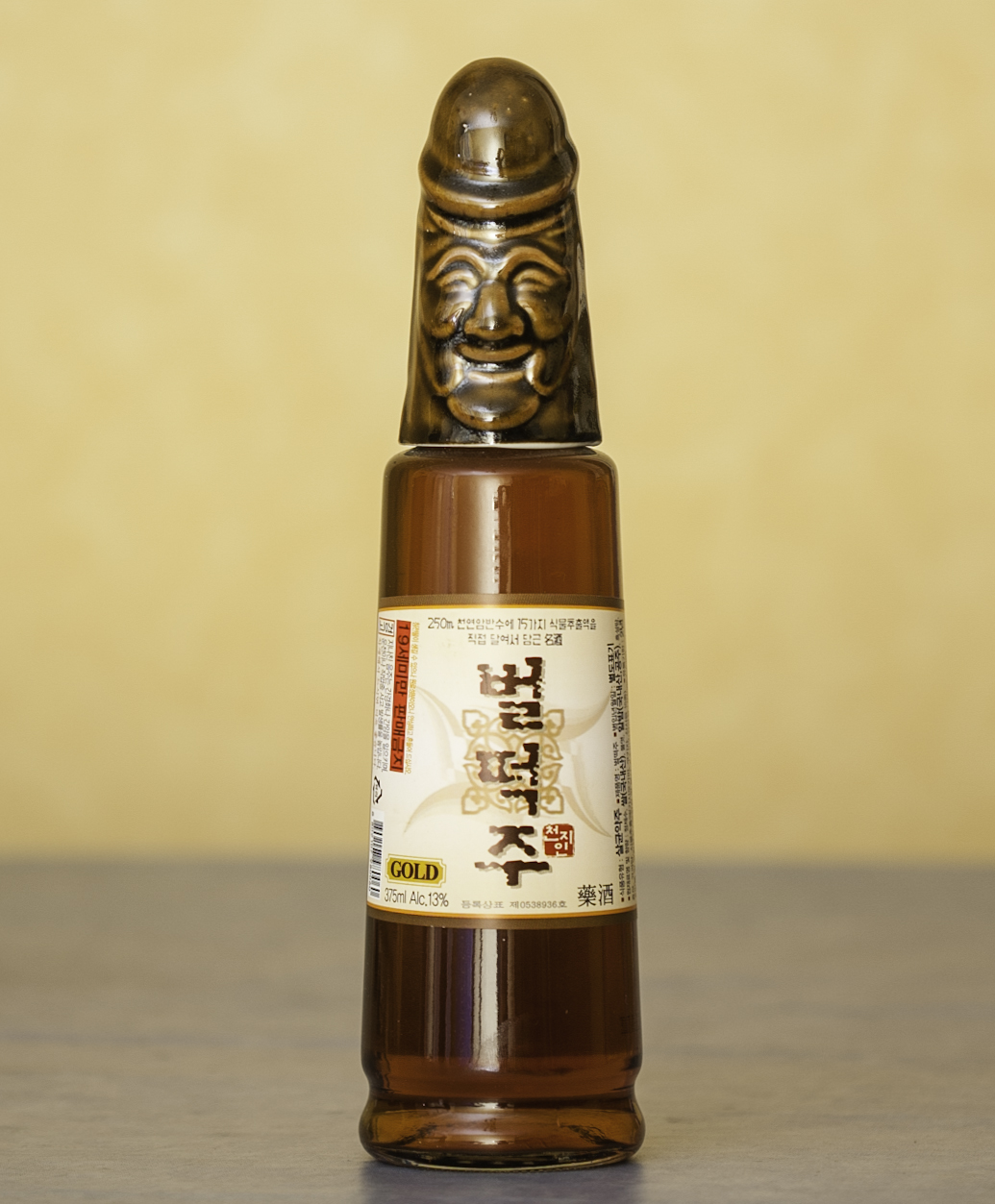 South Korean Beolddeok Ju medicinal rice wine - believed to increase male stamina